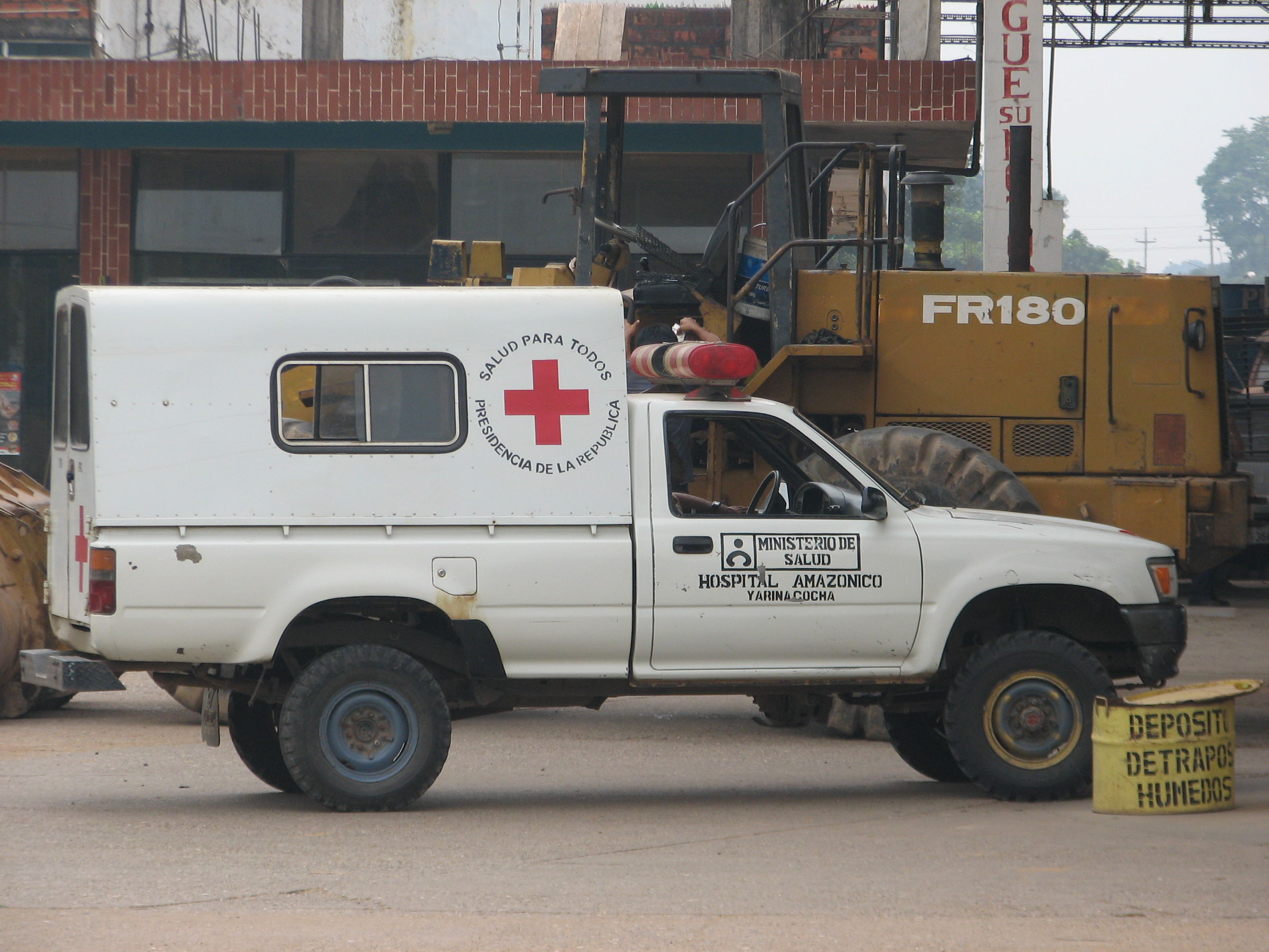 Ambulance, Ministry of Health, Amazonica Hospital in Yarinacocha/Coronel Portillo/Ucayali, Peru